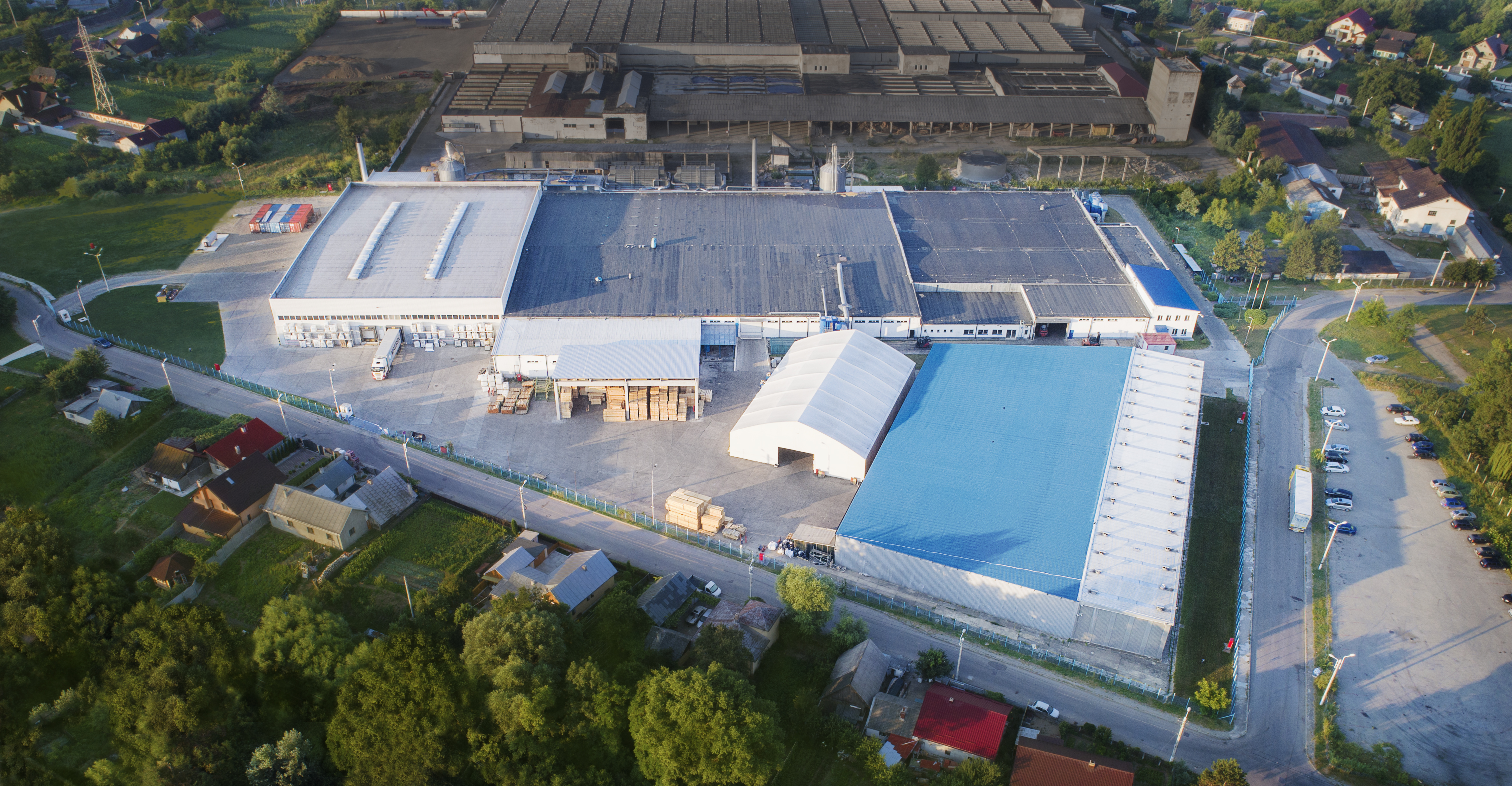 Edge-glued panels, finger-jointed products and briquettes are manufactured in Siret, Romania. The plant, which employs about 260 people, was taken over by Holzindustrie Schweighofer in 2009.